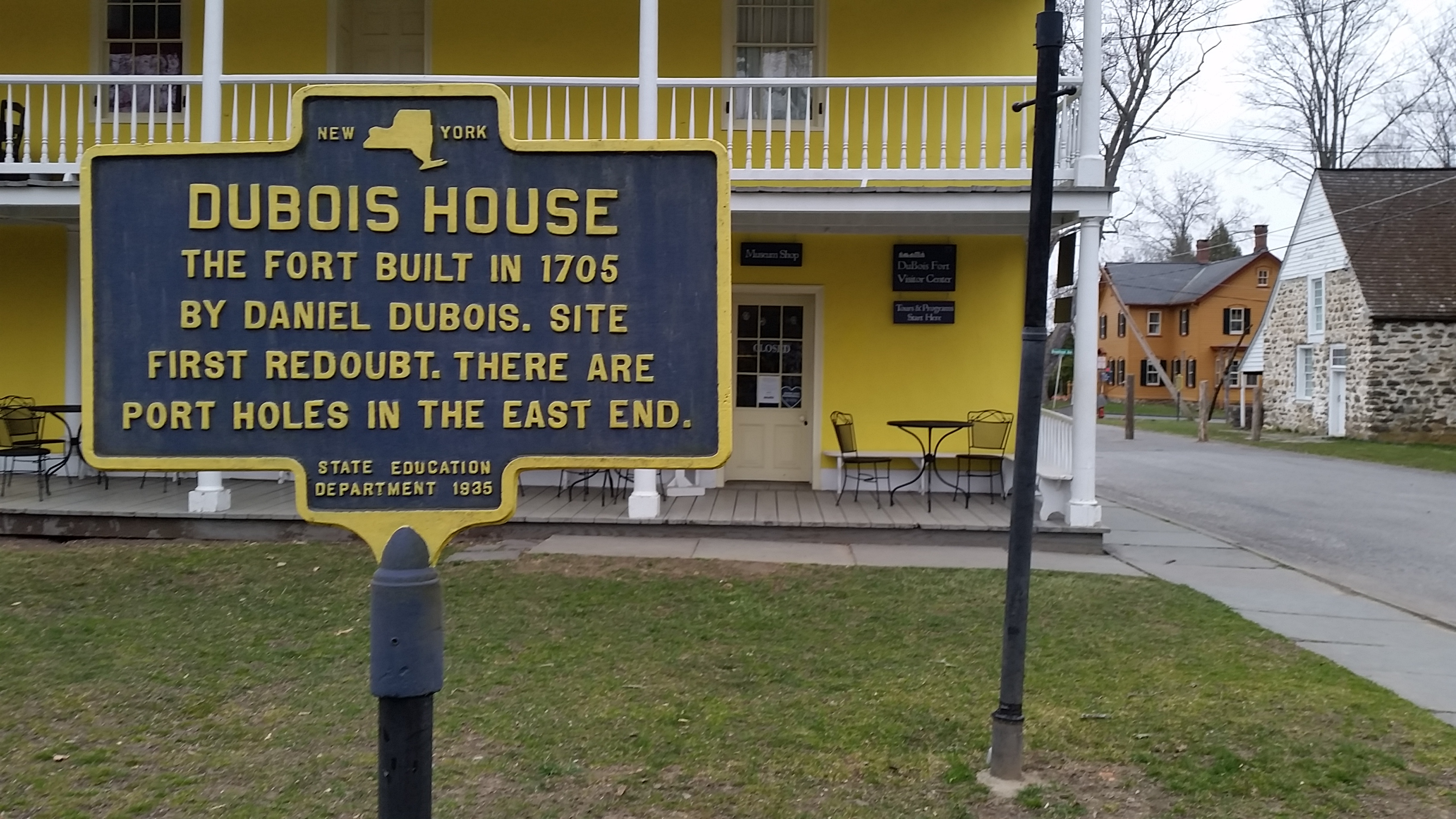 NY State Historic Marker at New Paltz's Huguenot Street Historic District for the Dubois House